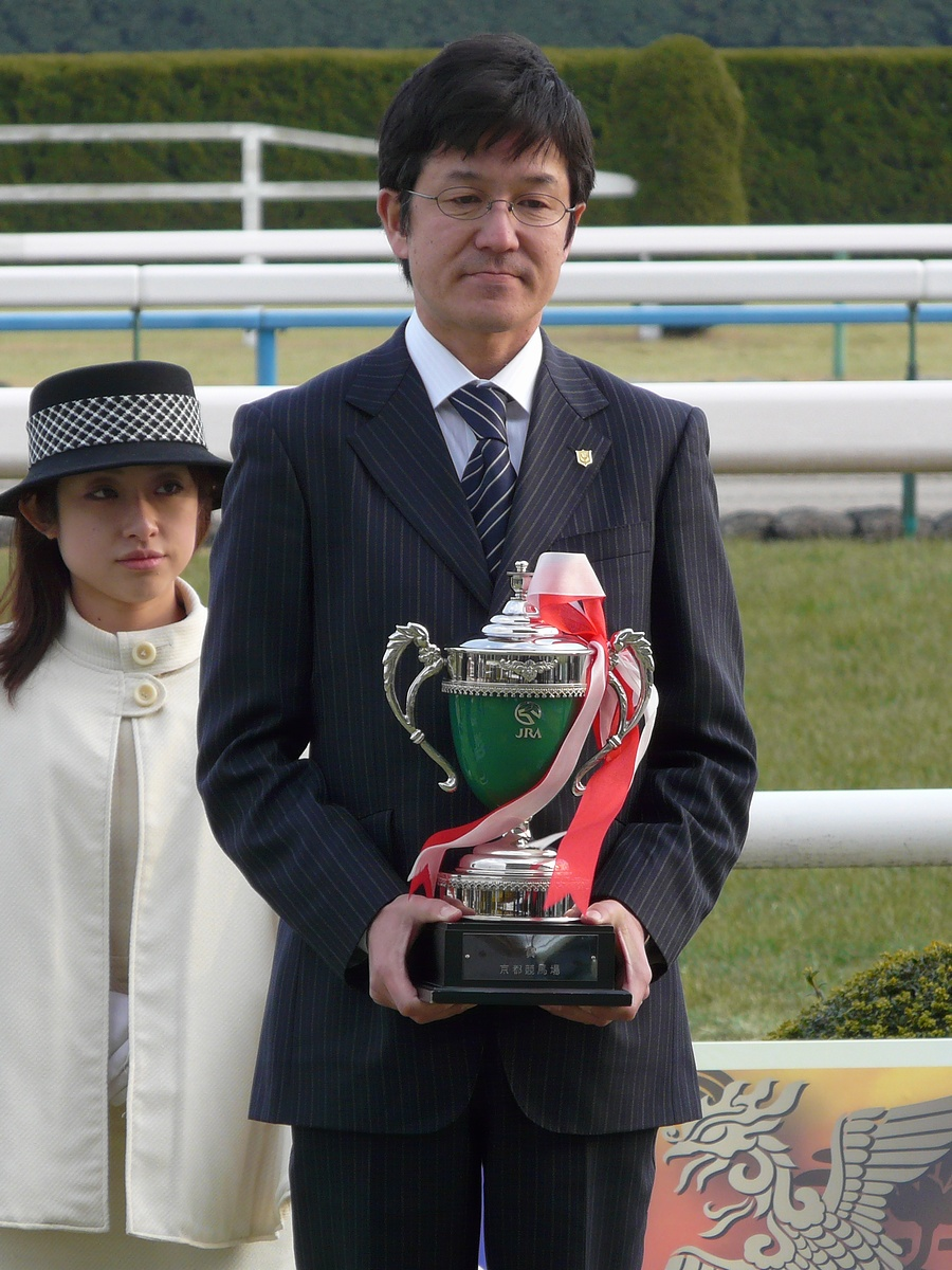 Kazuya-Nakatake20110129